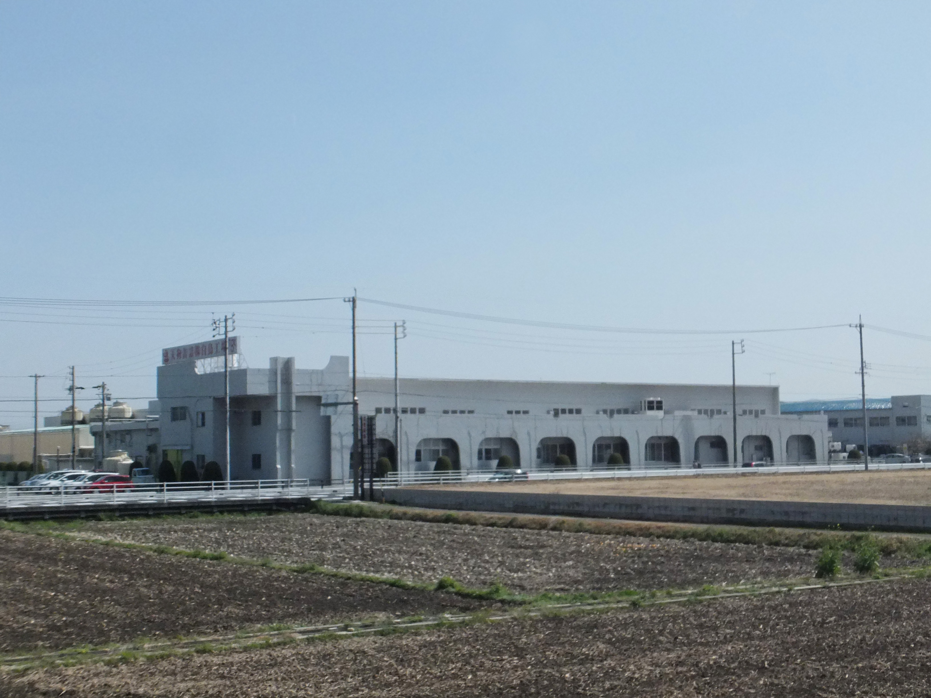 Tengu Canning Co., Ltd. Toyokawa Factory (天狗缶詰株式会社豊川工場) at Haramizo 28-1, Shirotori-cho, Toyokawa, Aichi, Japan